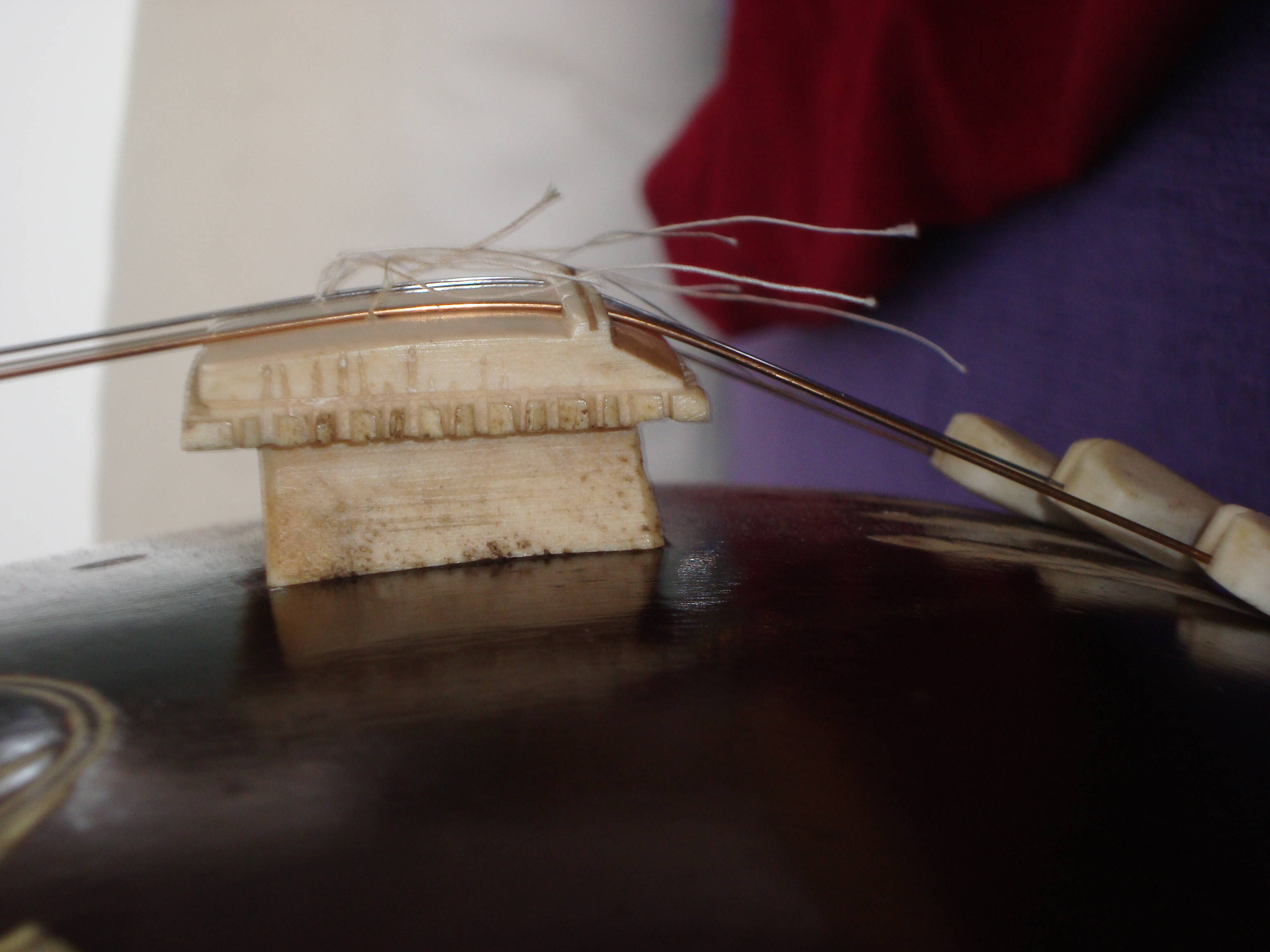 This photo shows the large contact area of string and bridge and how the bridge gradually slope away from under the strings